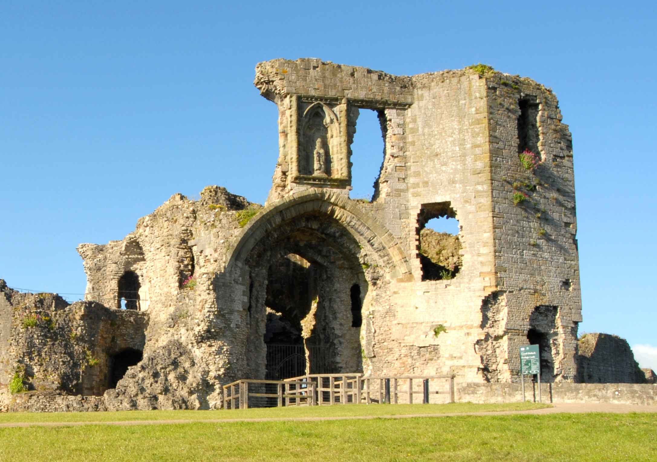 Detail of Denbigh Castle 3.jpg